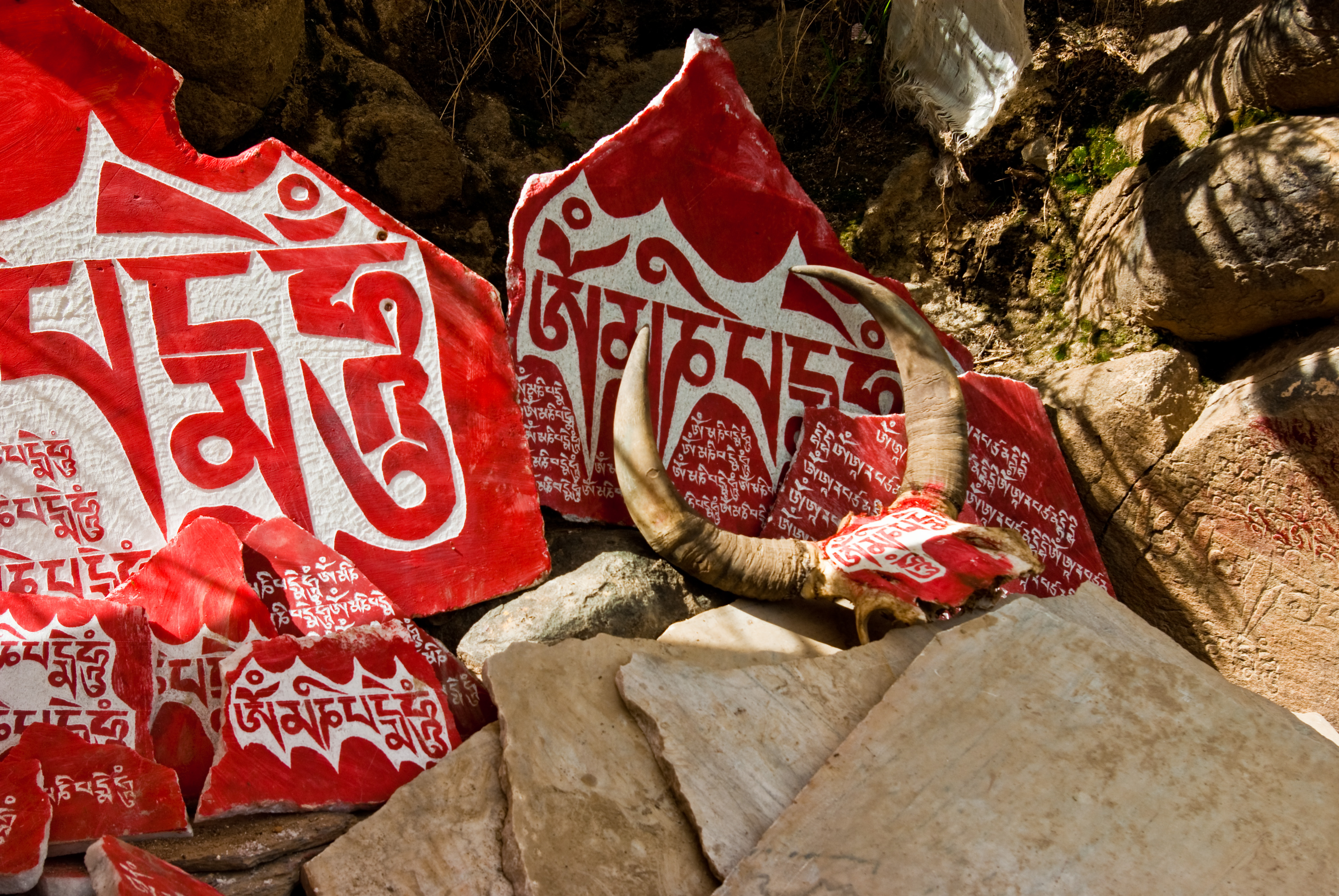 Om mani padme hum writ on stones and yack skull